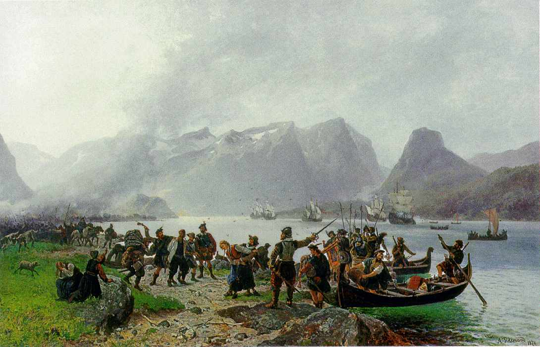 Depicting the Scottish invasion in Norway 1612. The invasion was led by Colonel Ramsay, but has in Norwegian tradition been attributed to George Sinclair.